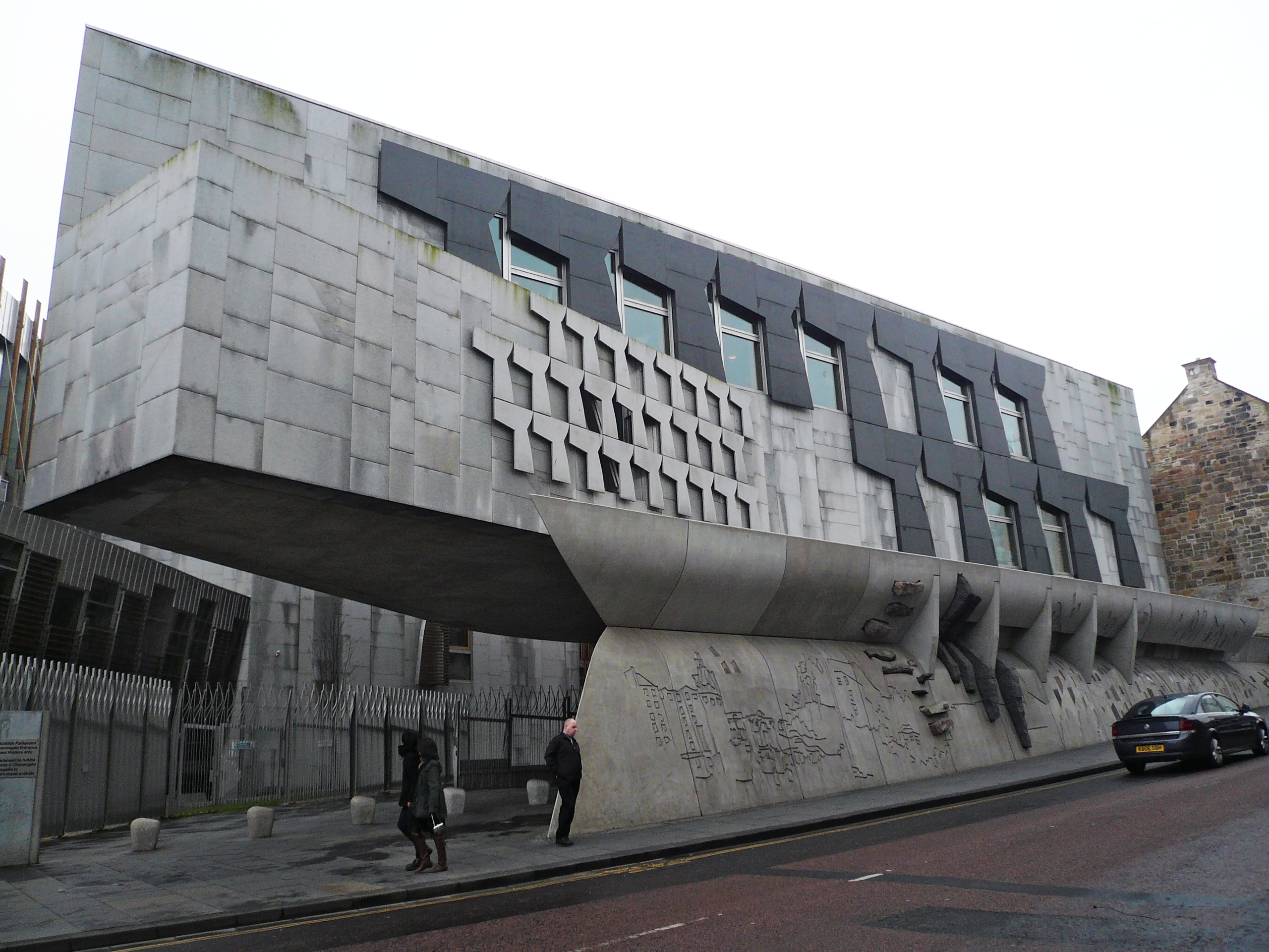 The Canongate Wall at the Scottish Parliament Building. Constructed by Sora Smithson. The wall is constructed from a selection of well known Scottish stones including Clashach, Knowehead and Giffnock and features a mural carved by Gillian Forbes and Martin Reilly based upon a sketch by Enric Miralles of Edinburgh's Old Town.